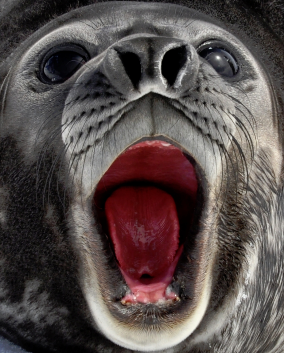 Southern Elephant Seal (Mirounga leonina) (young) in South Georgia.